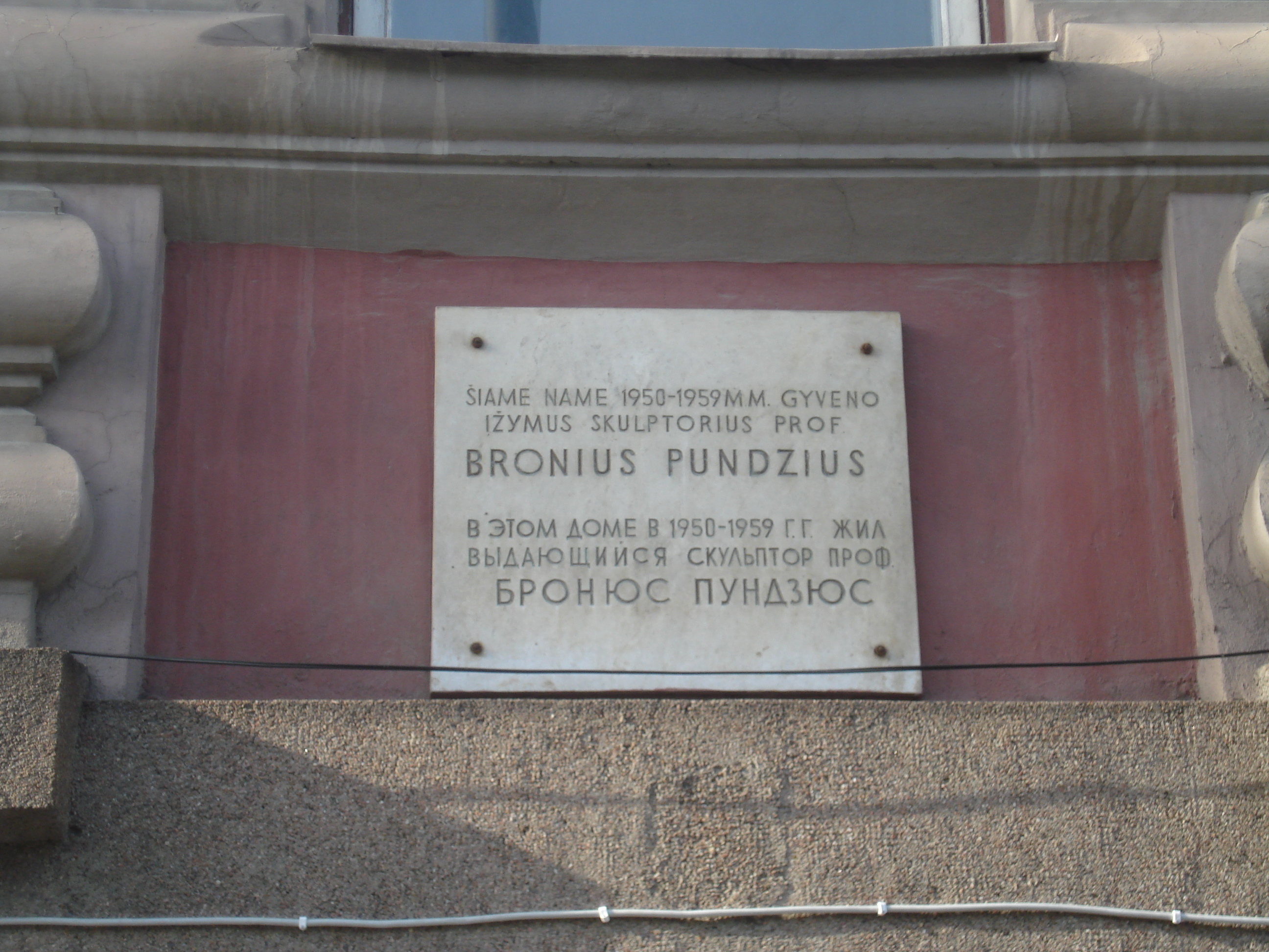 Memorial tablet in Vilnius: the prominent Lithuanian sculptor prof. Bronius Pundzius (1907–1959) lived in this house in 1950-1959. Gediminas ave. 39